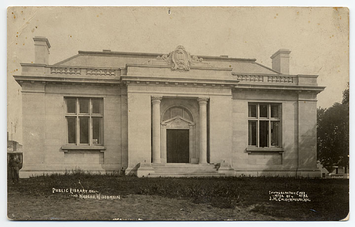 Image of Marathon County Library. The post card is not available to the public anymore. This is the only representation of the building from this time period.